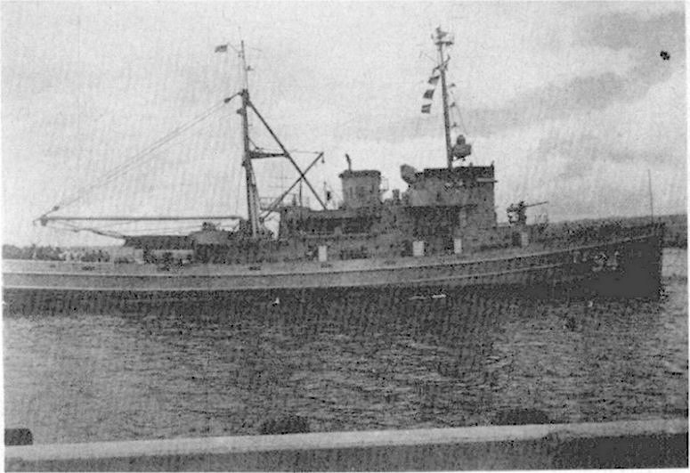 uma (ATF-94) underway in the Aleutian Islands. Yuma carries supplies to these remote Pacific outposts, date unknown. US Navy photo from "All Hands" magazine, April 1955